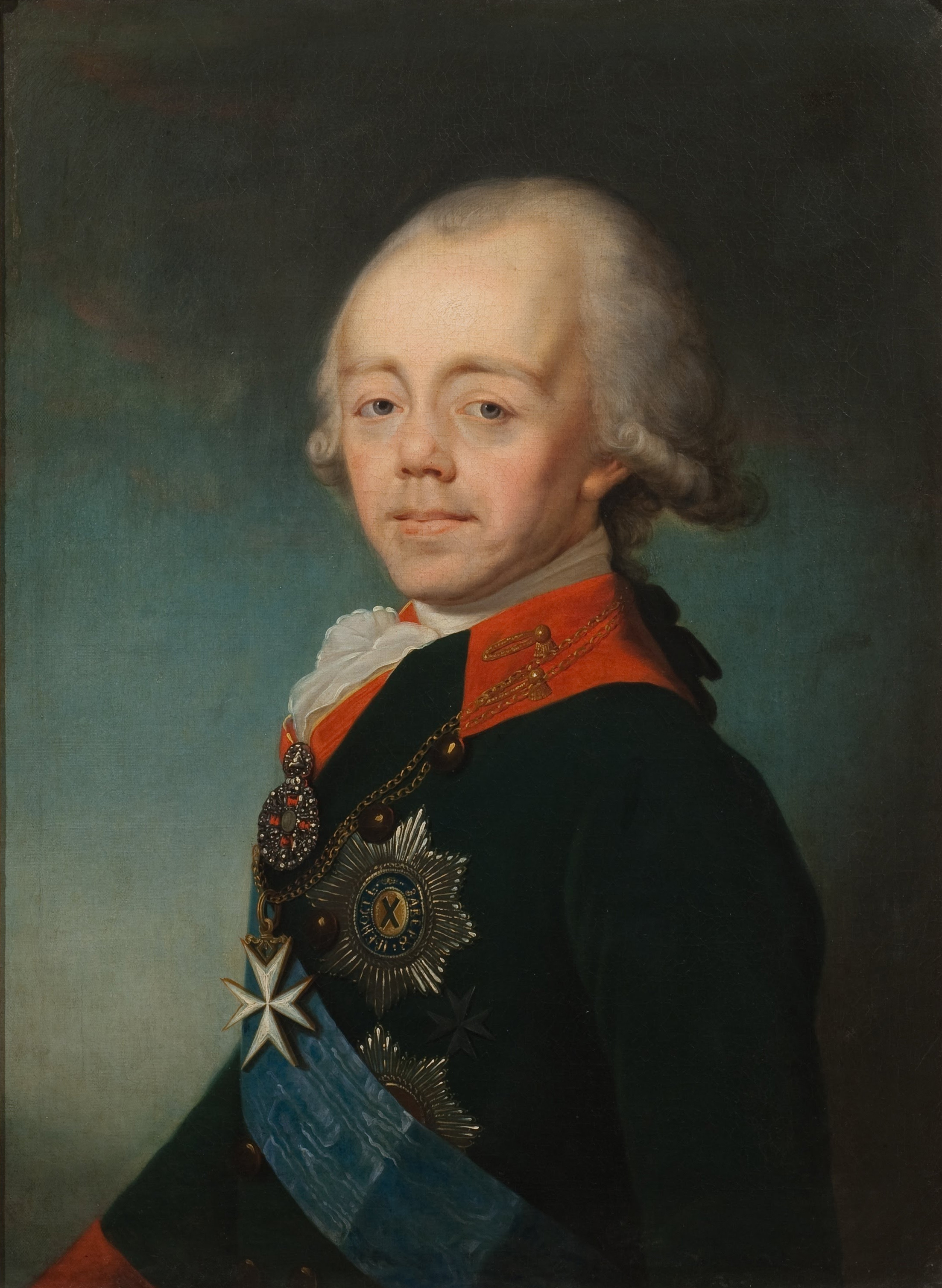 Portrait of Emperor Paul I Petrovich. Unknown artist. Ministry of Culture of the Russian Federation, via Google Cultural Institute. Early 1790s.